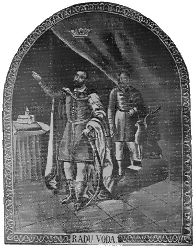 Radu Mihnea, picture over his tombstone at Radu Voda monastery in Bucharest